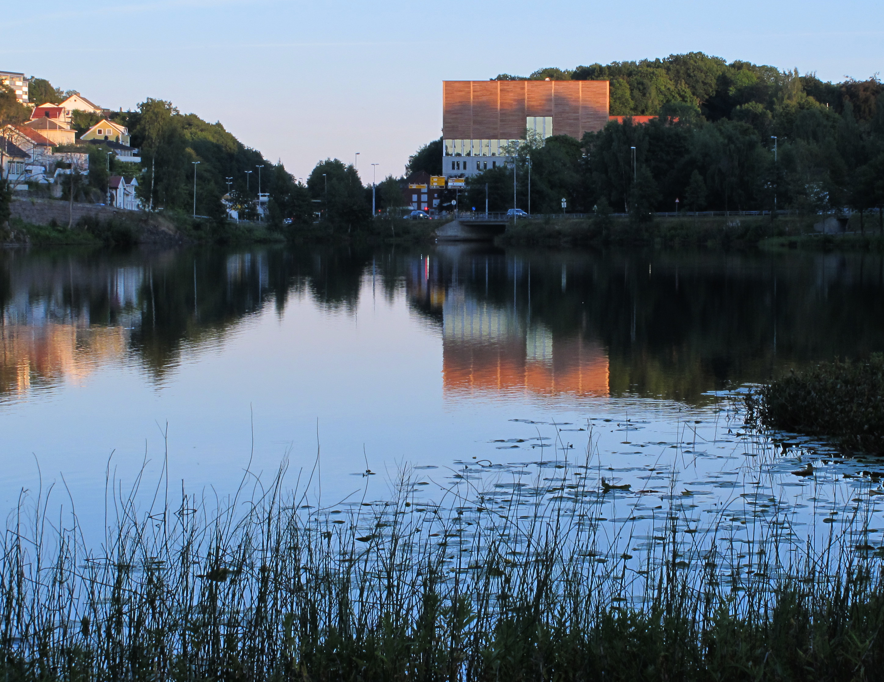 Aust-Agder kulturhistoriske senter in Arendal, Norway, museum and archive, opens in 2014